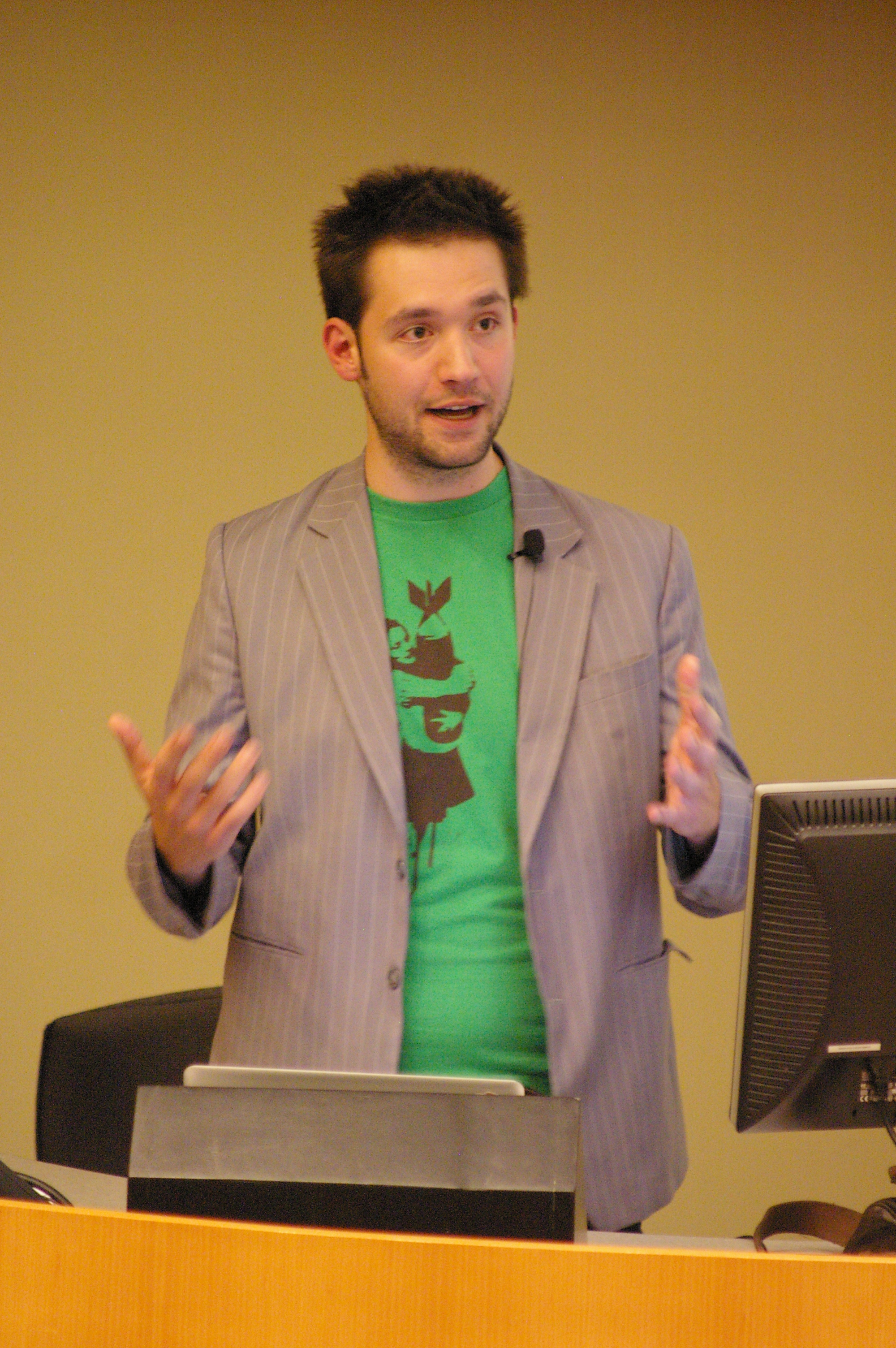 Alexis Ohanian, one of the founders of reddit, as he speaks about his experience getting reddit from a startup to one of the top competitors in User-rated news and networking.